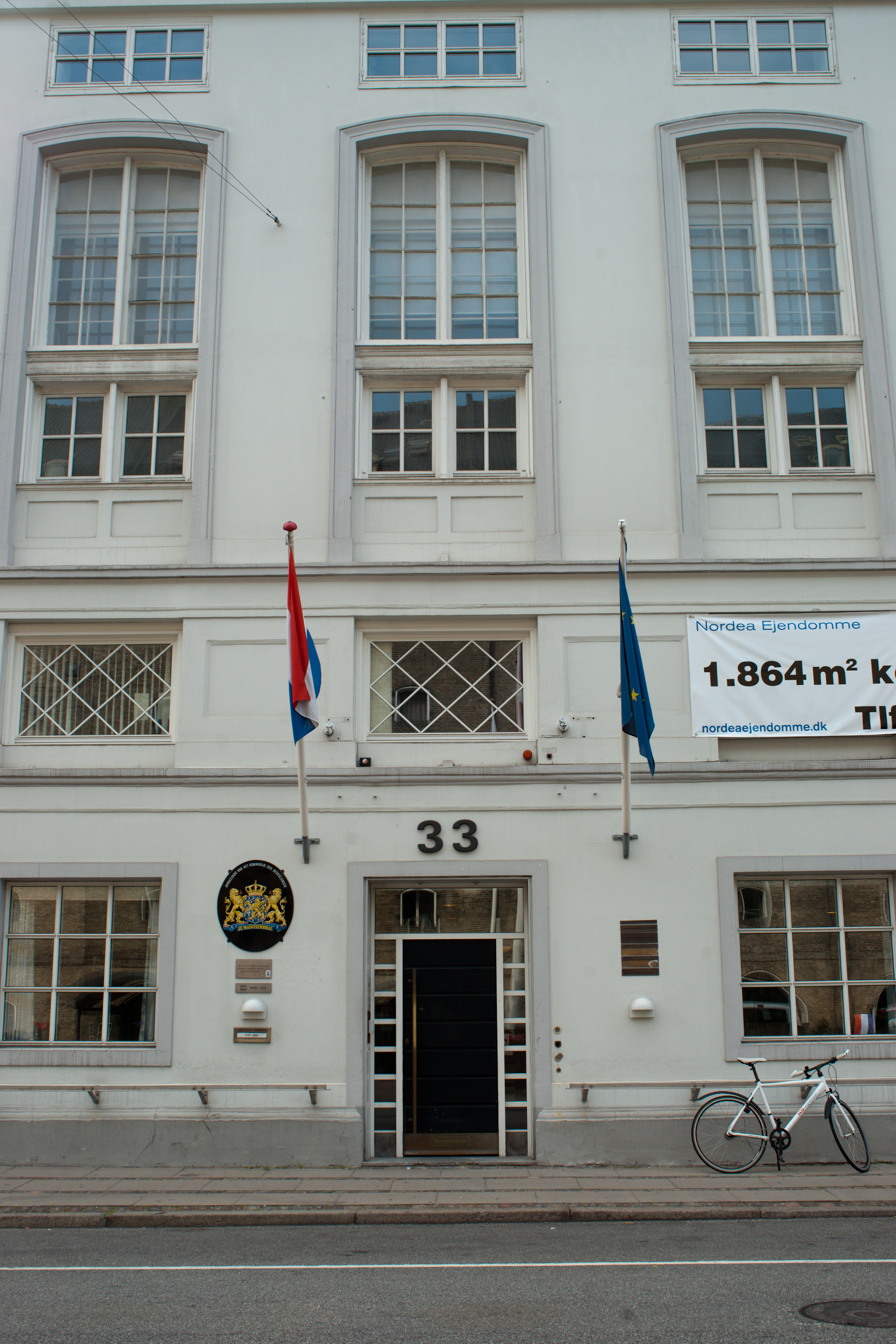 Embassy of the Netherlands in Copenhagen (Denmark).